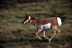 Pronghorn Antelope - Antilocapra americana ; Wind Cave National Park